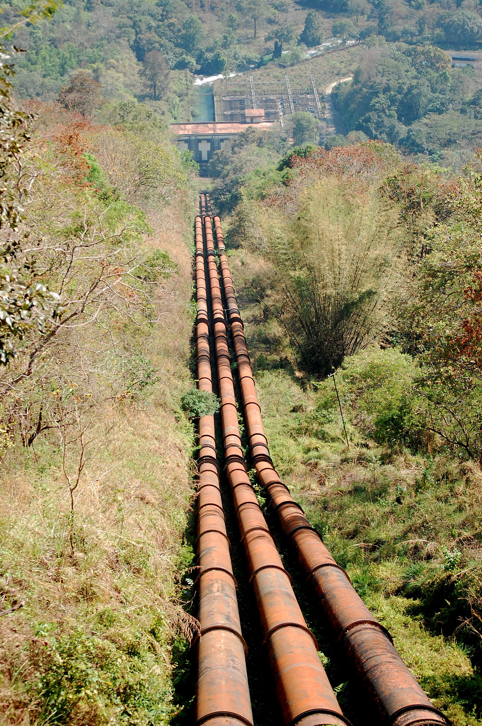 PenStock to Sholayar Power House